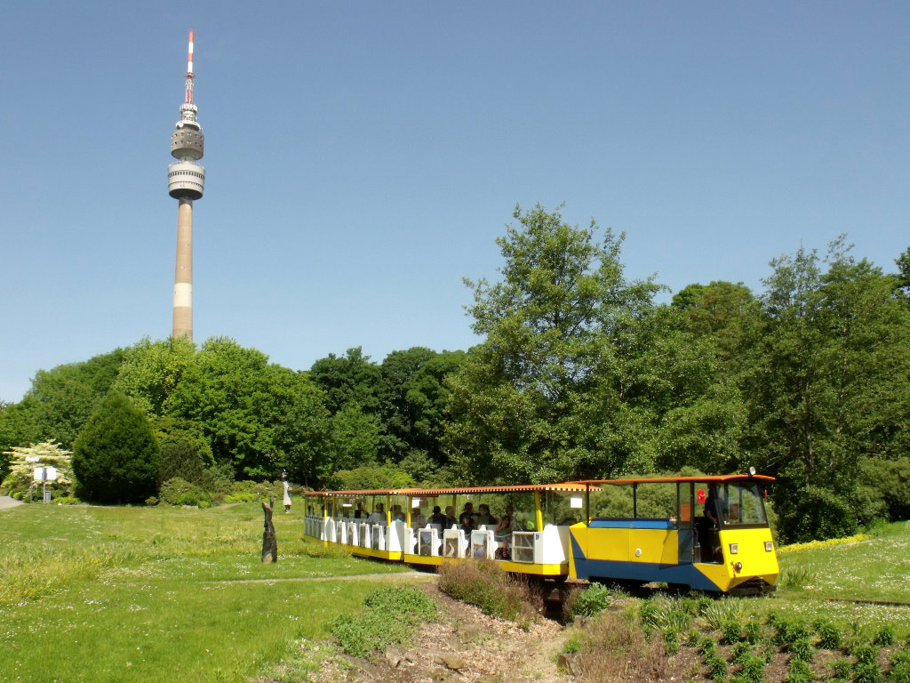 The Westfalenpark light rail in Dortmund below the Florian tower